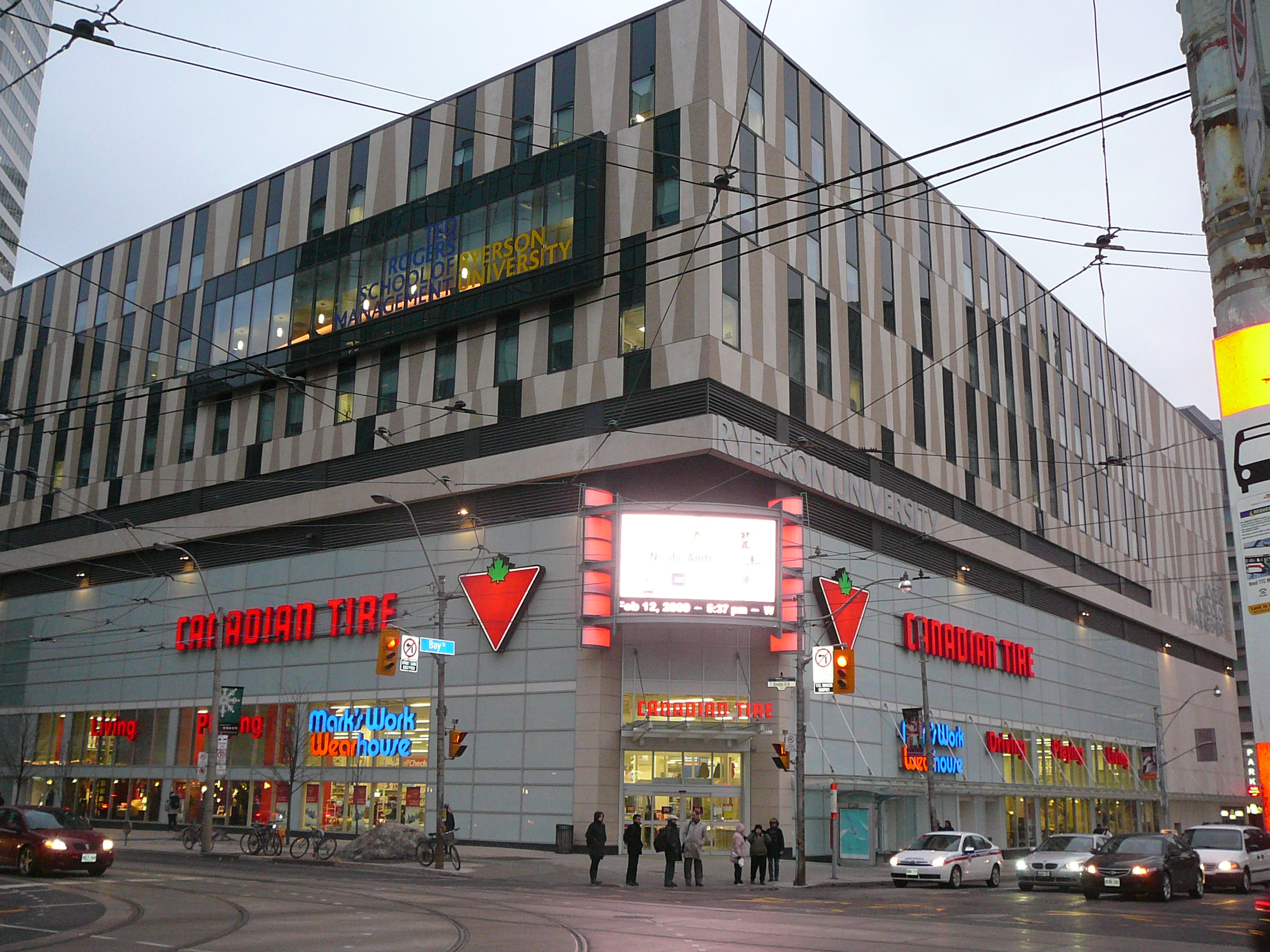 Rogers School of Management, Ryerson University at Toronto Eaton Centre.